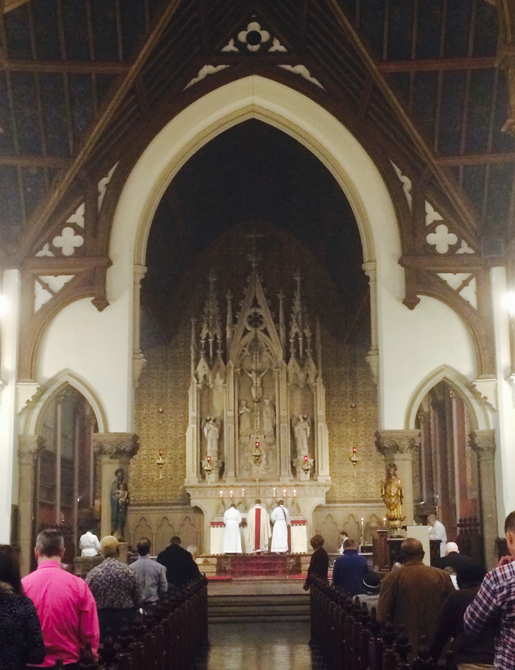 High Mass at Grace Church in Newark during Lent.